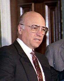 President Bush shares the podium with Secretary Yeutter at a briefing of the National Association of Agricultural Journalists in the Indian Treaty Room of the White House.